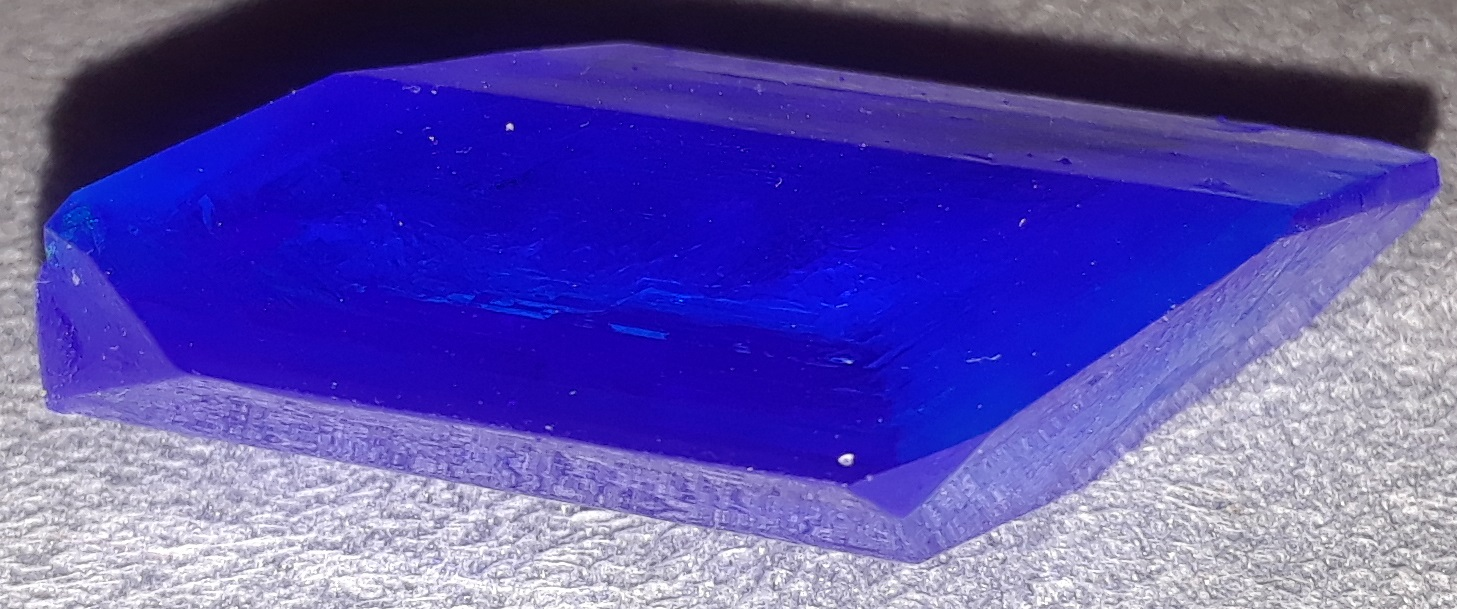 Monocrystal of blue vitriol grown from a saturated solution of cupric sulfate, longest dimension is about 5 cm.